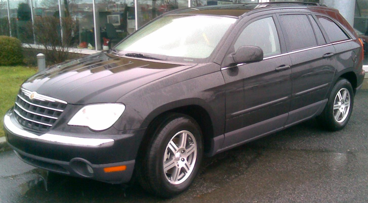 2007 Chrysler Pacifica photographed in Montreal, Quebec, Canada.